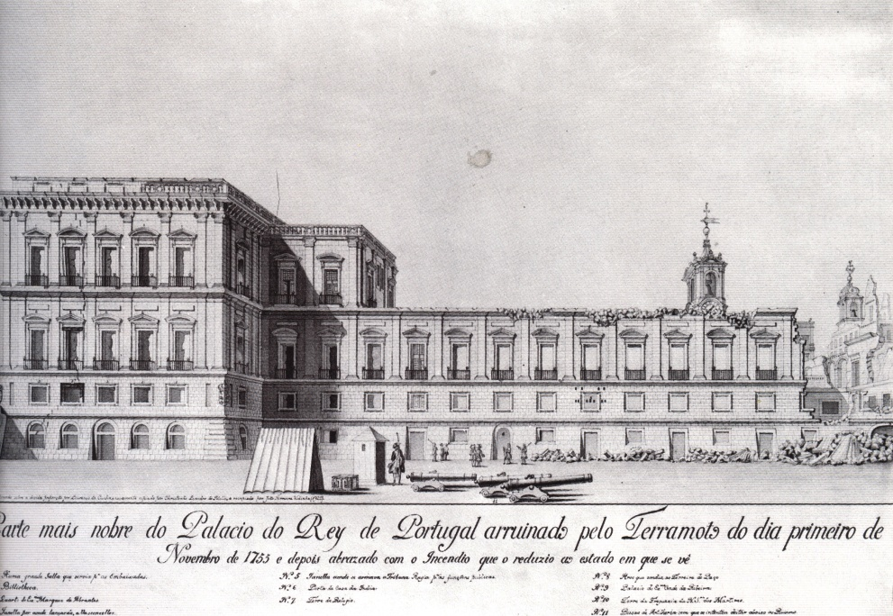 obra portuguesa